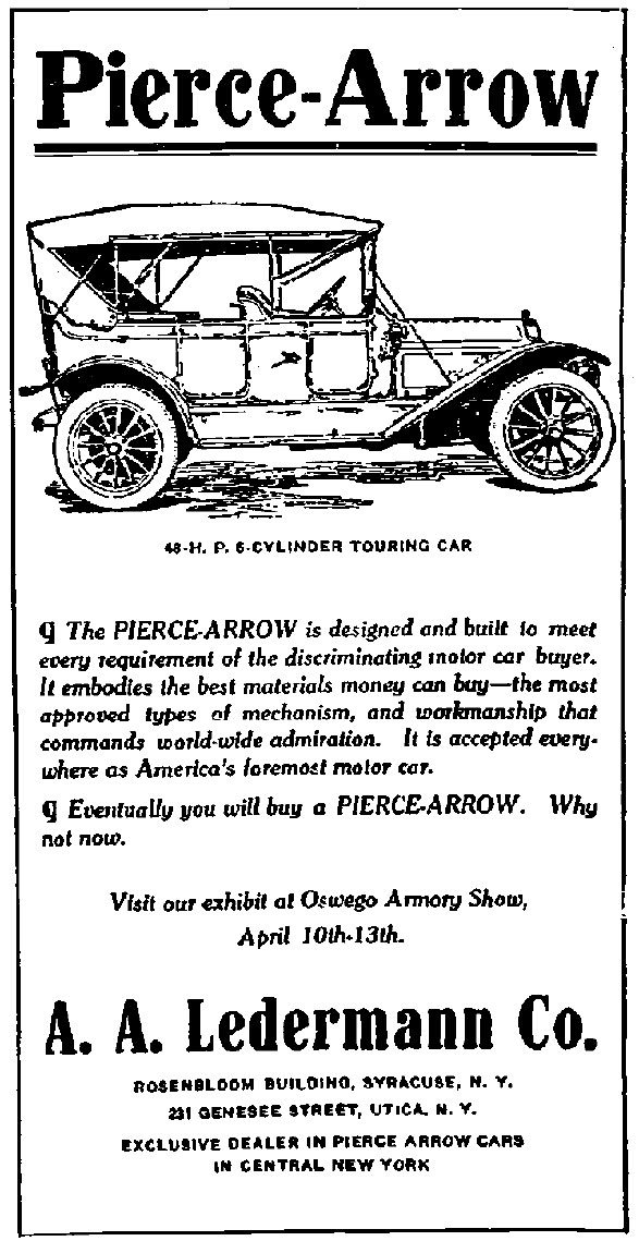 A 1912 Pierce-Arrow Advertisement